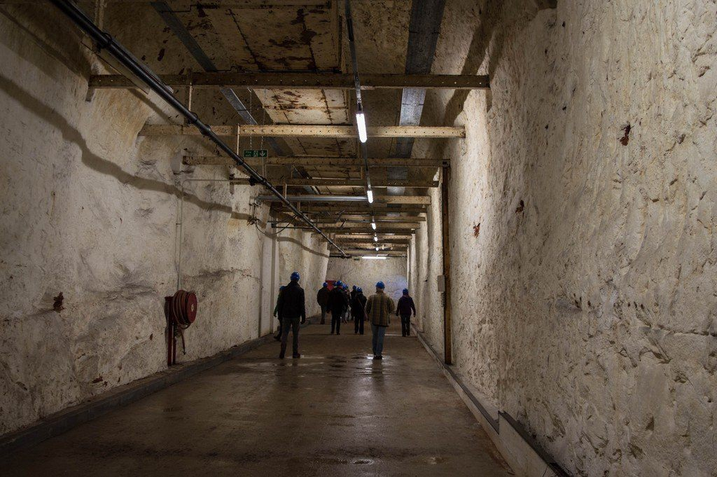 Open day at Drakelow Tunnels